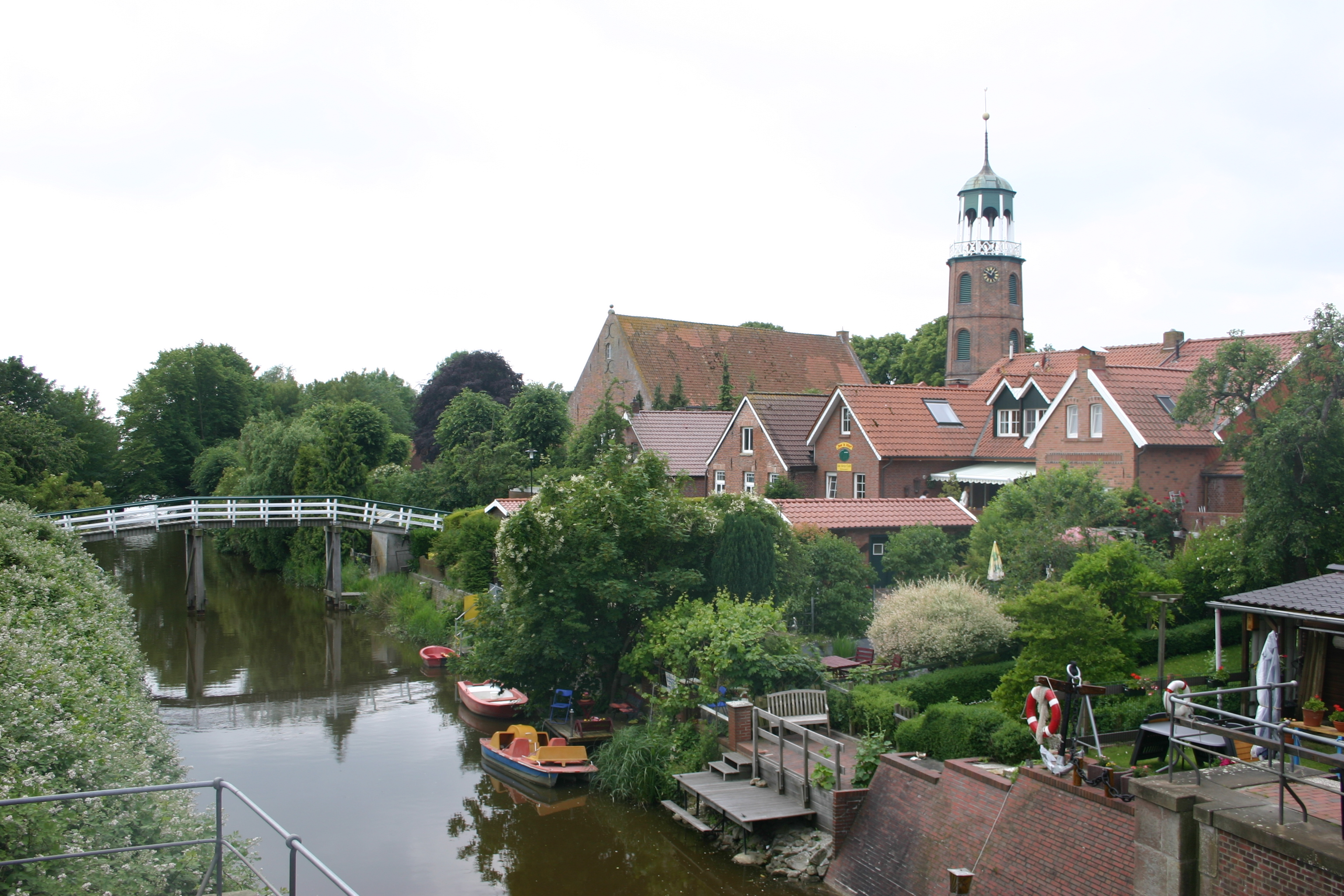 Church, drainage canal and some houses in the village center of Ditzum, community of Jemgum, district of Leer, East Frisia, Germany. Drainage is a necessity in the low-lying marshlands close to the North Sea coastline.